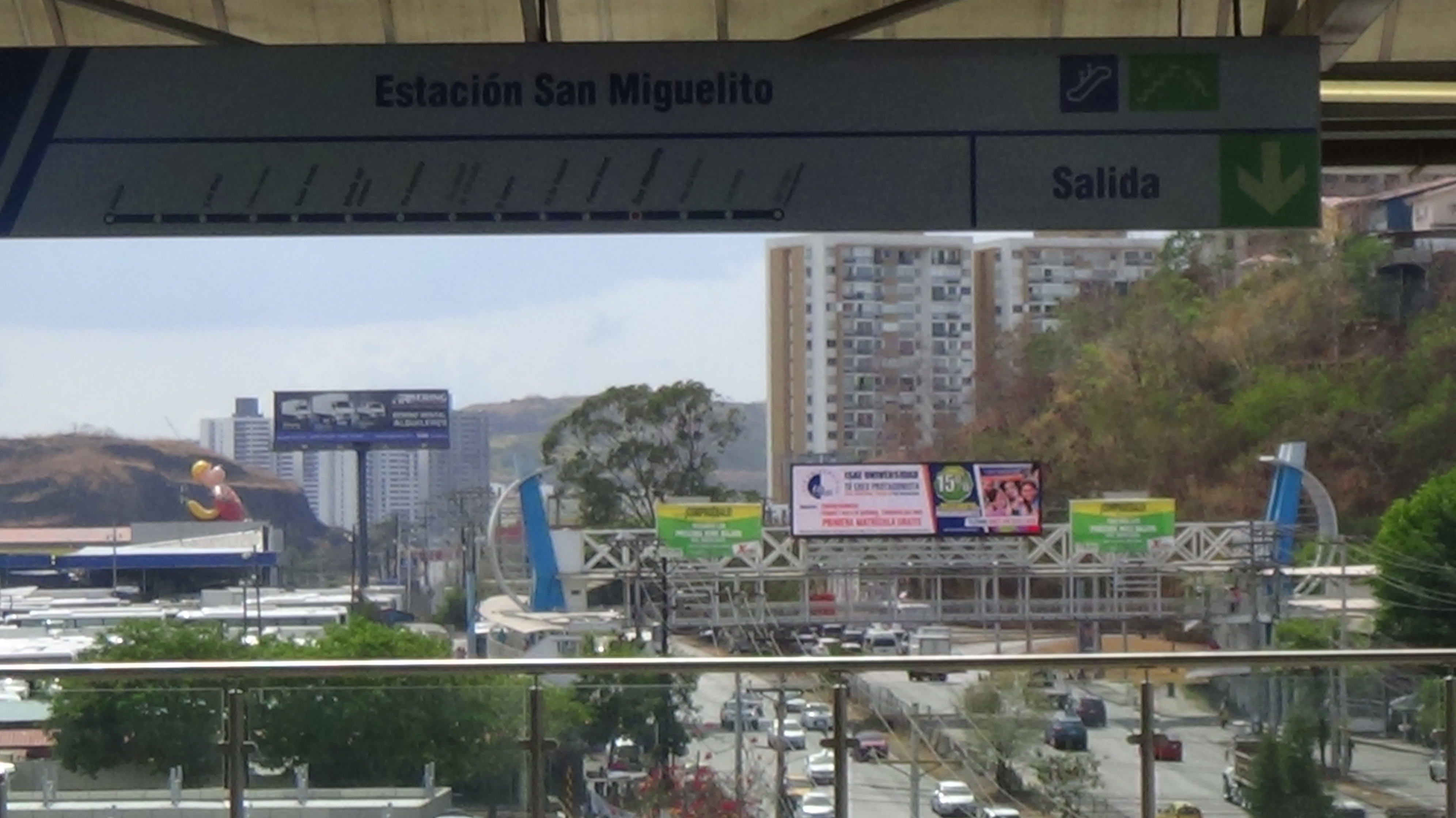 San Miguelito metro station, San Miguelito, Panama